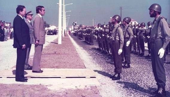 Fernando Raimundo Rodrigues during the inauguration of "Avenida do Emigrante" ave., in Ovar